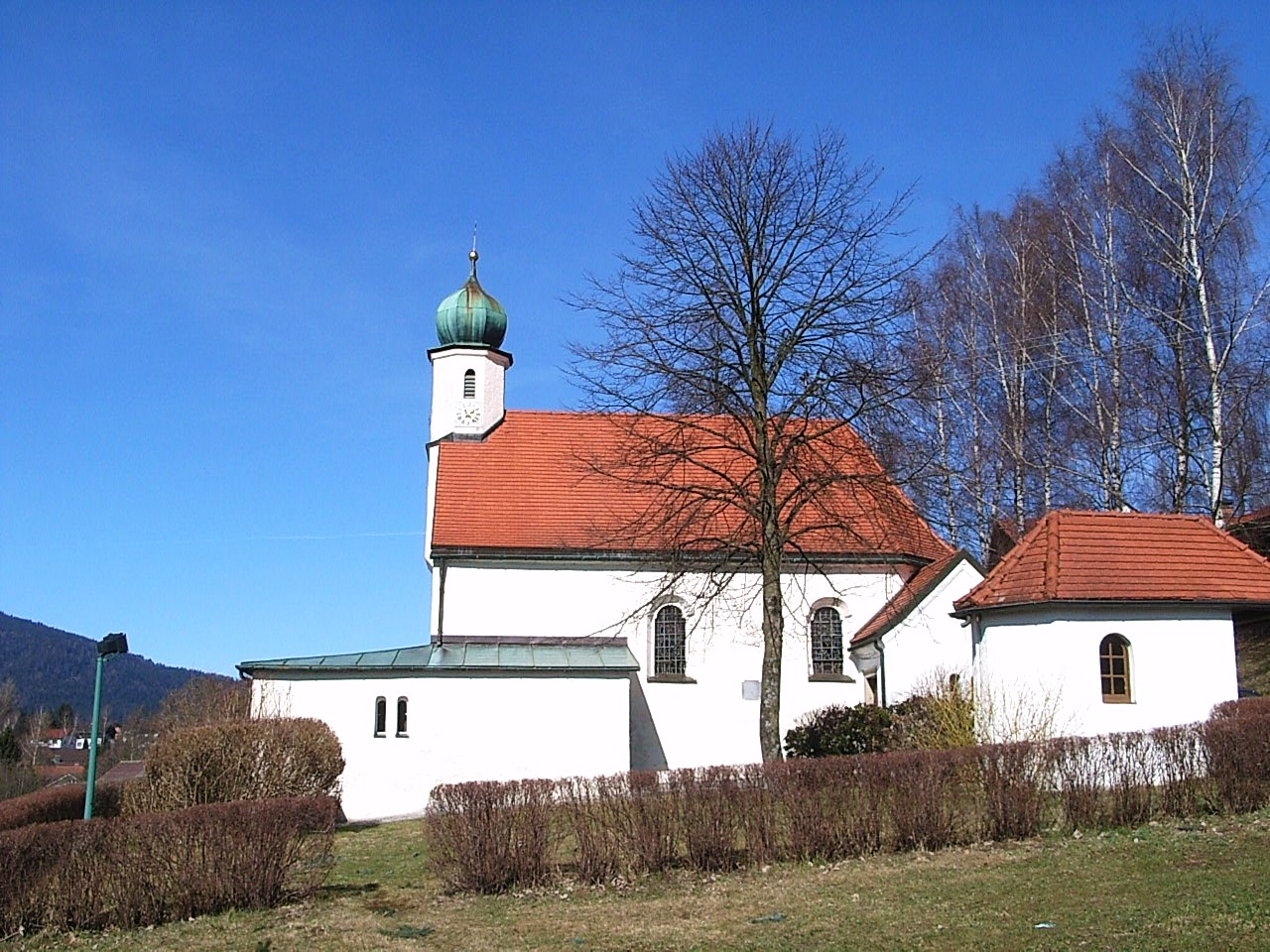 Arnbruck, Chapel of Our Lady from south.